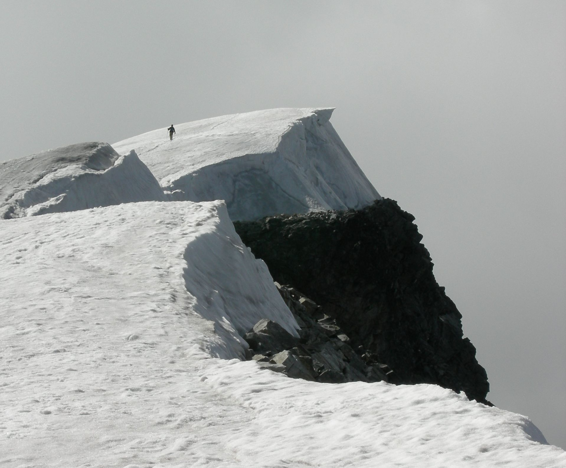 Glittertind summit